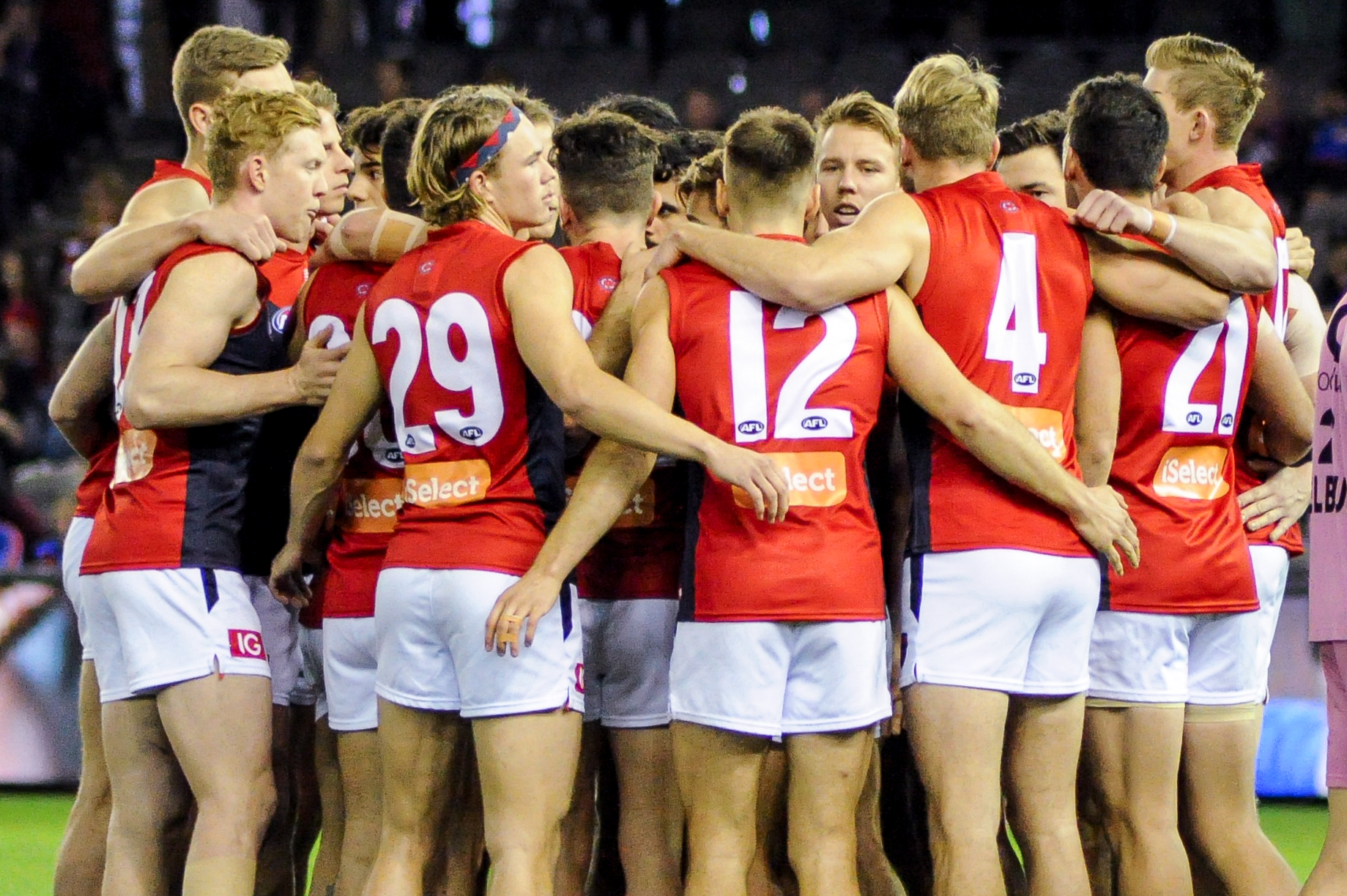 Melbourne huddle during the AFL round thirteen match between the Western Bulldogs and Melbourne on 18 June 2017 at Etihad Stadium in Melbourne, Victoria.